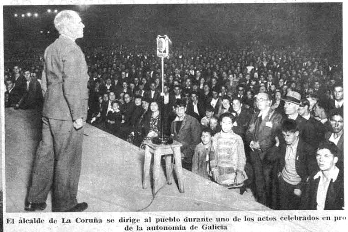 The Mayor of A Coruña, in the campaign of the Statute of Autonomy of Galicia of 1936